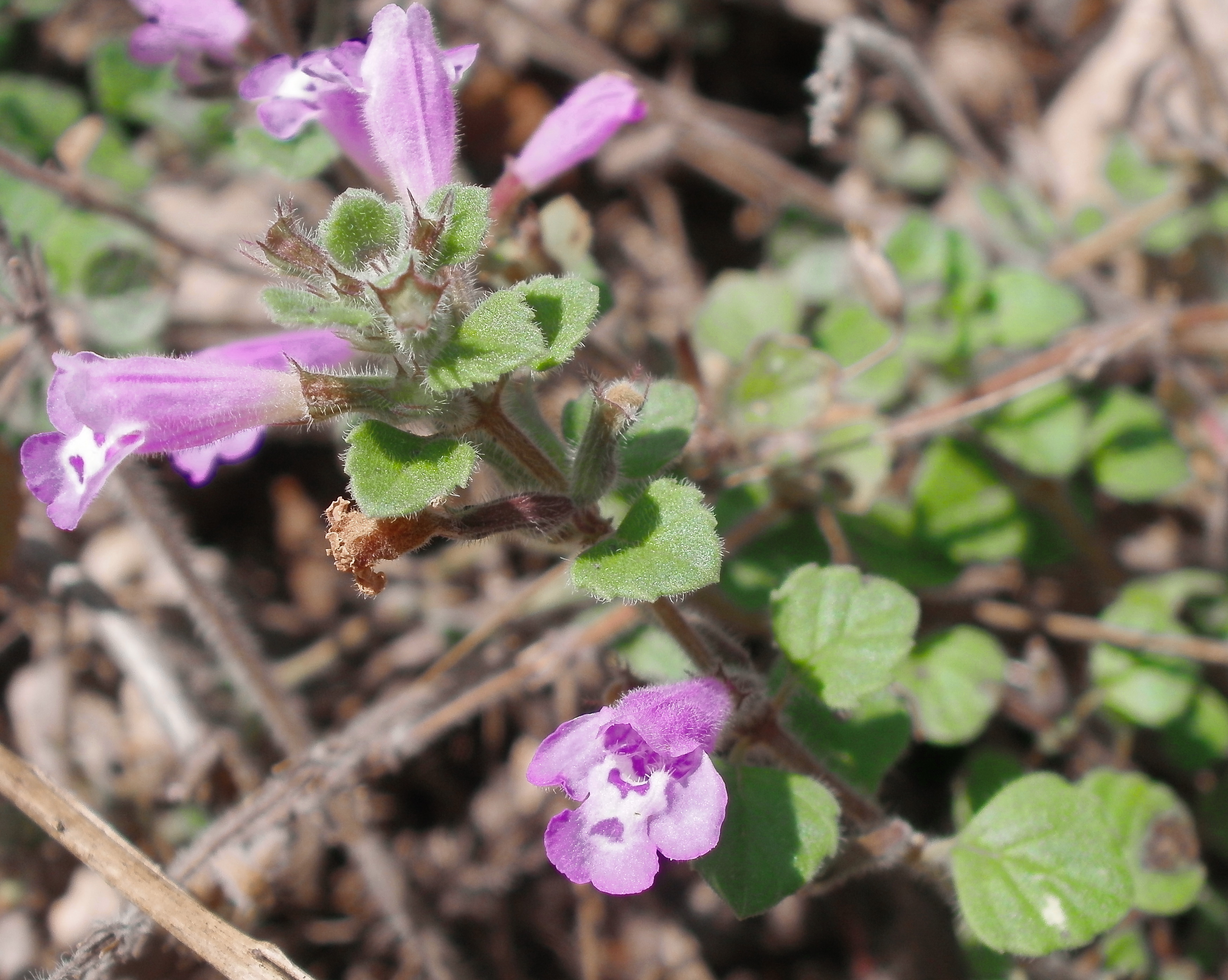 Flowers of Glechoma hirsuta. Српски (ћирилица): Добричица (Glechoma hirsuta).